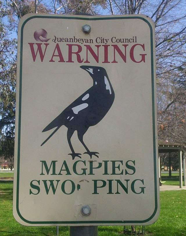 magpie swooping sign at Queanbeyan NSW Australia. I took the photo Cfitzart 23:49, 23 September 2005 (UTC)